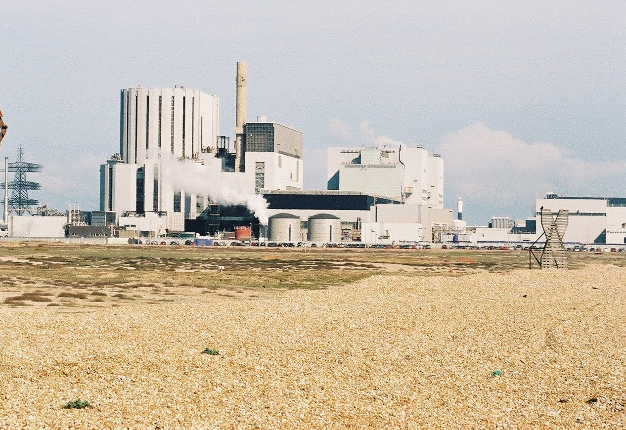 View of Dungeness B power Station in kent, UK